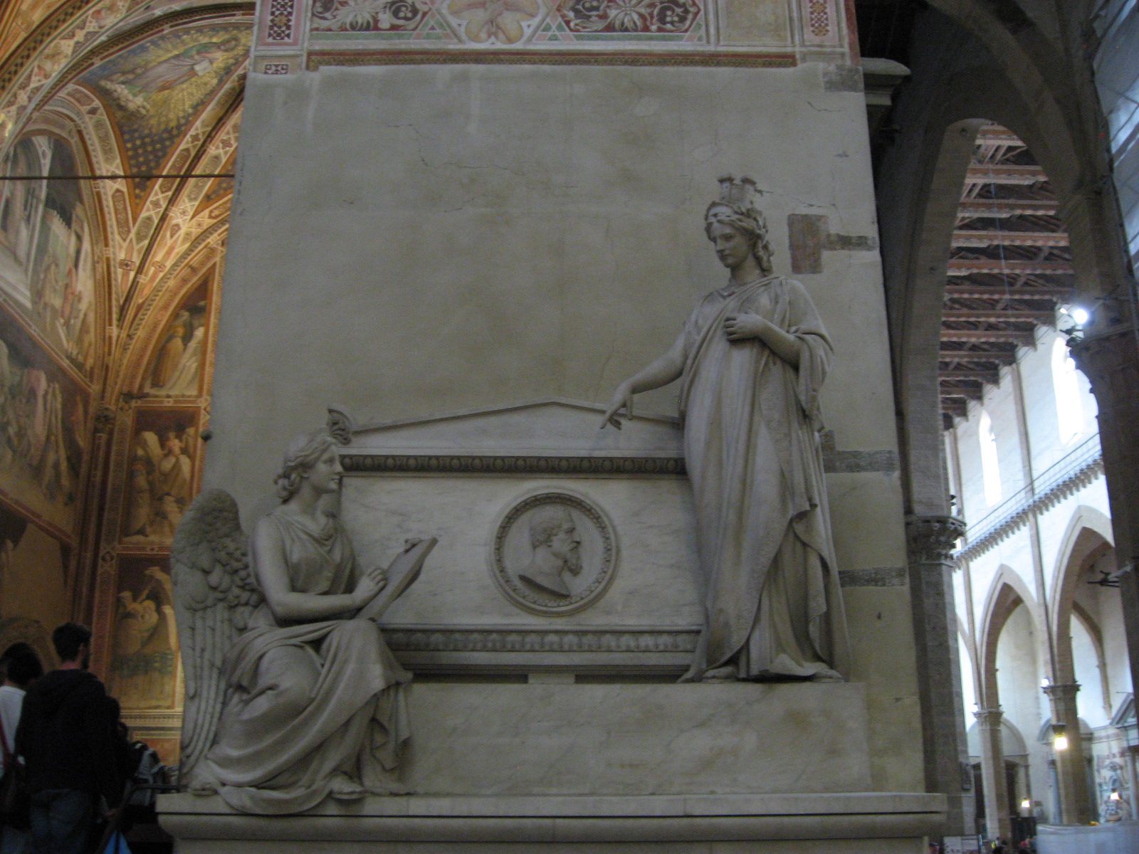 Tomb of Prince Corsini in the Basilica of Santa Croce in Florence.